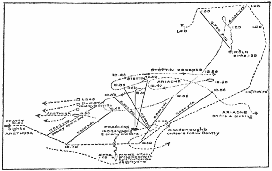 Map showing British and German ships and movements at the Battle of Heligoland Bightl, Final Phase, 28 August November 1914.